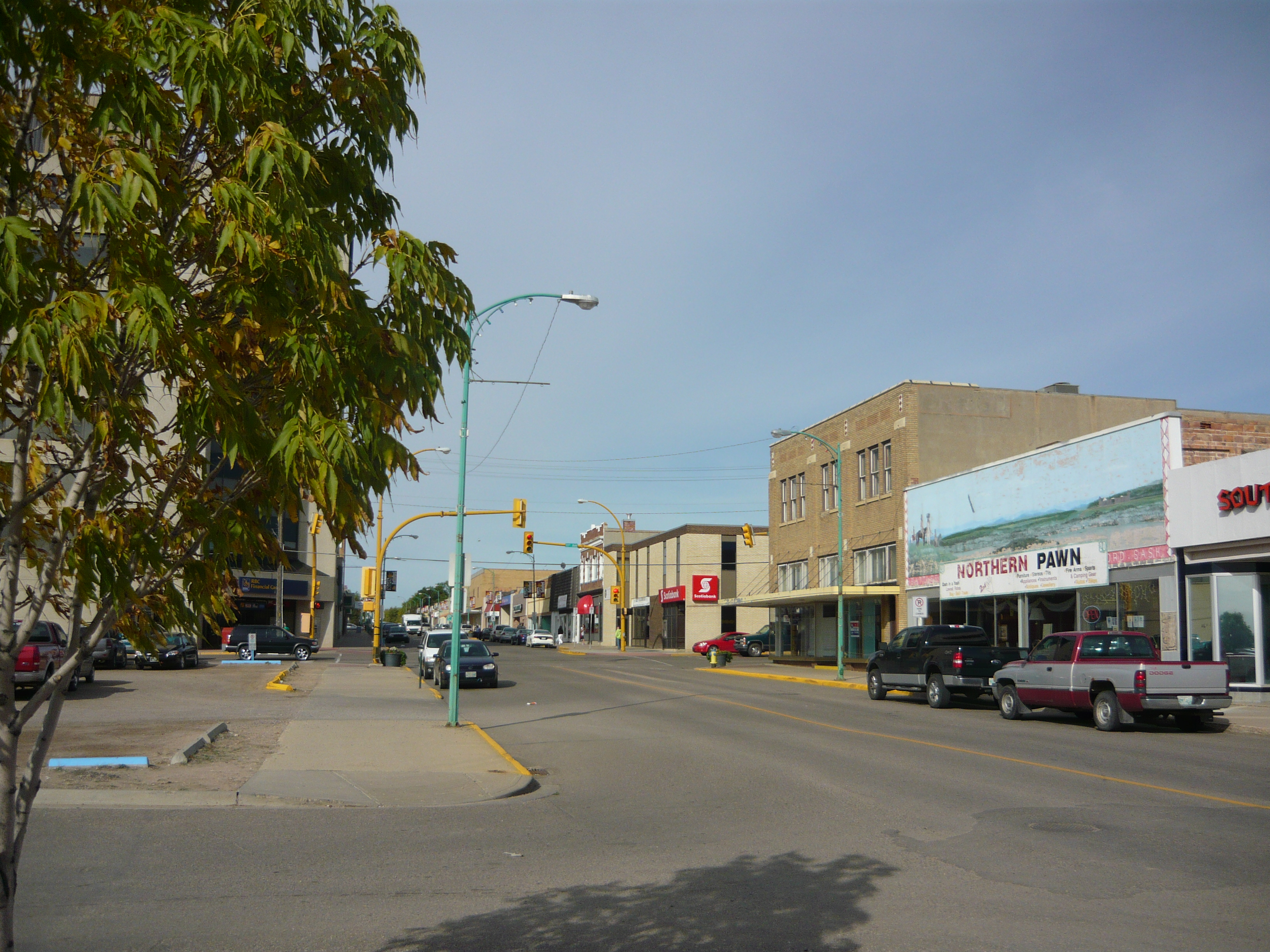 Business district of North Battleford, Saskatchewan, Canada. Photo shows 101st Street, looking northbound.